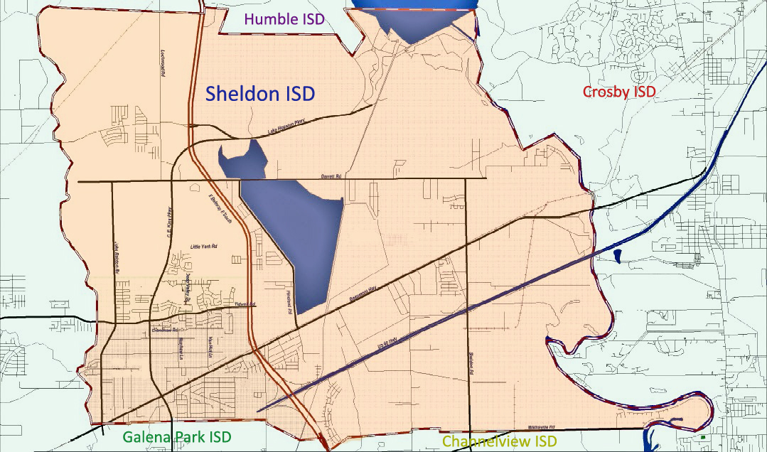 Sheldon ISD Boundary Map with surrounding districts labeled.